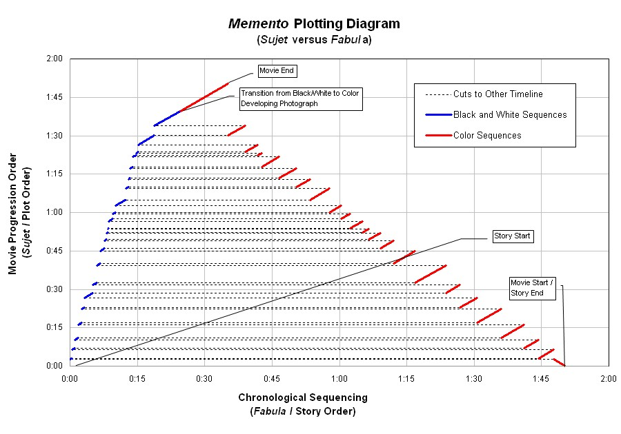 Chart showing the timeline of the sujet/plot of the movie as presented vs the chronological progression of the fabula/storyline